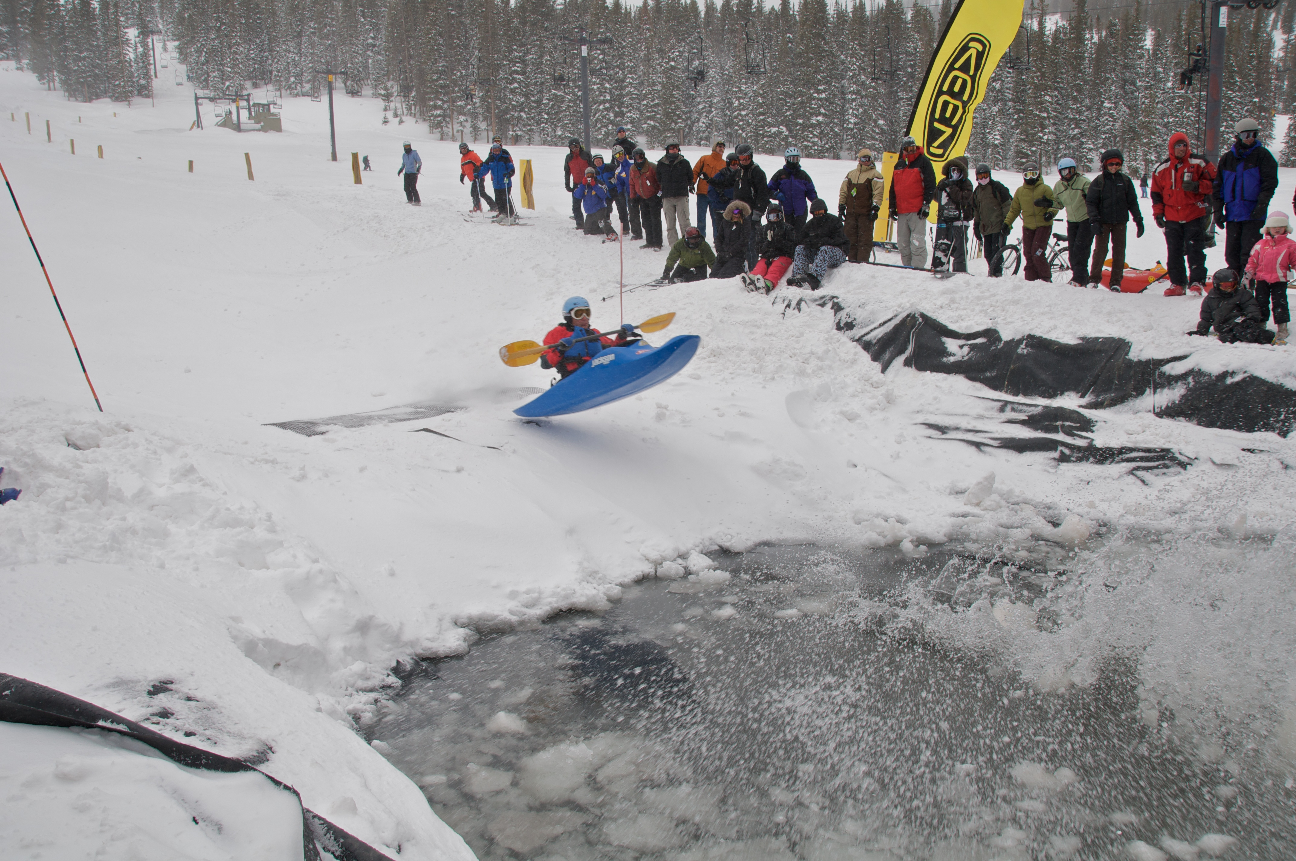 Kayaking in a blue Jackson kayak (Fun series) on snow on Monarch Mountain